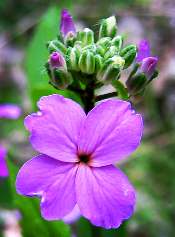 can anyone confirm or deny that this is Dame's Rocket?